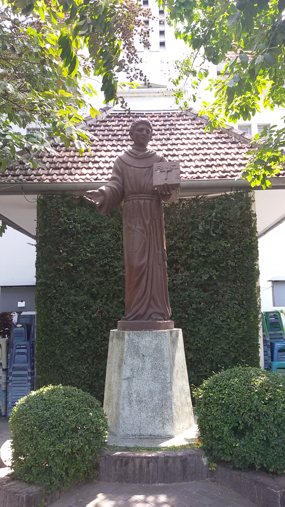 St Antonius statue at St Antonius Church, Yogyakarta